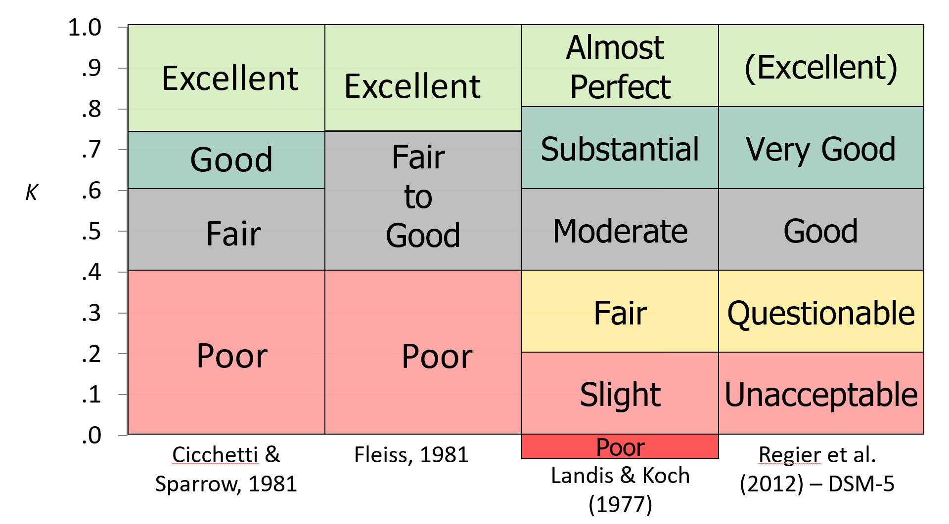 Kappa is a way of measuring agreement or reliability, correcting for how often ratings might agree by chance. It is similar to a correlation coefficient in that it cannot go above +1.0 or below -1.0. Several authorities have offered "rules of thumb" for interpreting the level of agreement. This figure compares several rubrics that are widely used in psychiatry and psychology.